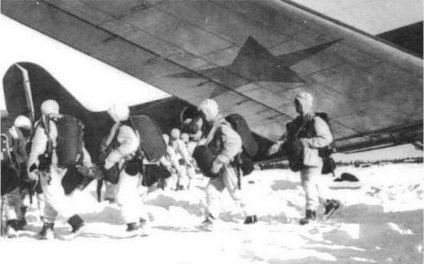 Paratroopers boarding an aircraft